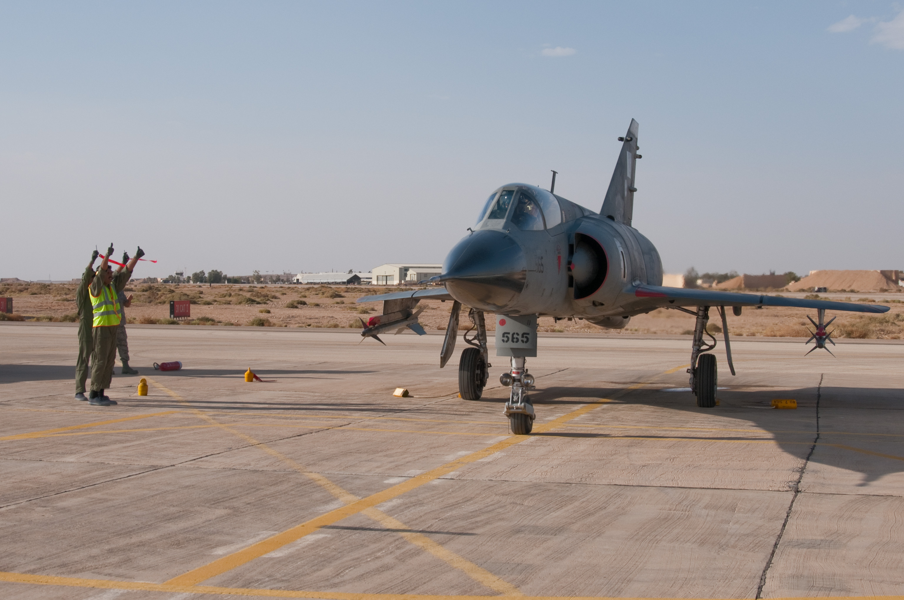 Pakistani airmen signal a pilot in a Mirage aircraft during the Falcon Air Meet 2010 alert scramble competition at Azraq Royal Jordanian Air Base, Jordan, Oct. 20, 2010. The United States, Jordan and Pakistan participated in the Falcon Air Meet to improve international military relations and joint air operations. (U.S. Air Force photo by Tech. Sgt. Wolfram M. Stumpf/Released)